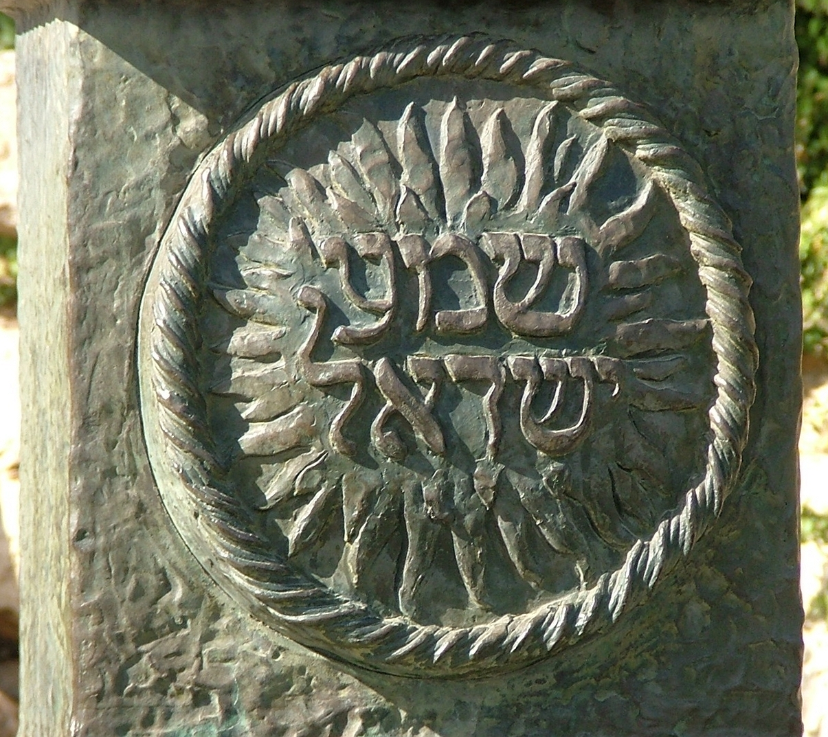 a close-up photo of the Shema inscription on the Knesset Menorah in Jerusalem.